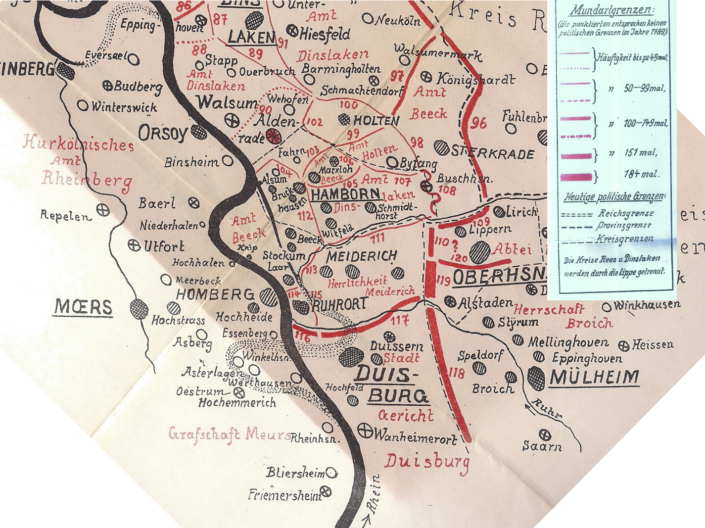 Dialects in the Low Rhin Region at the beginning of the 20th century.